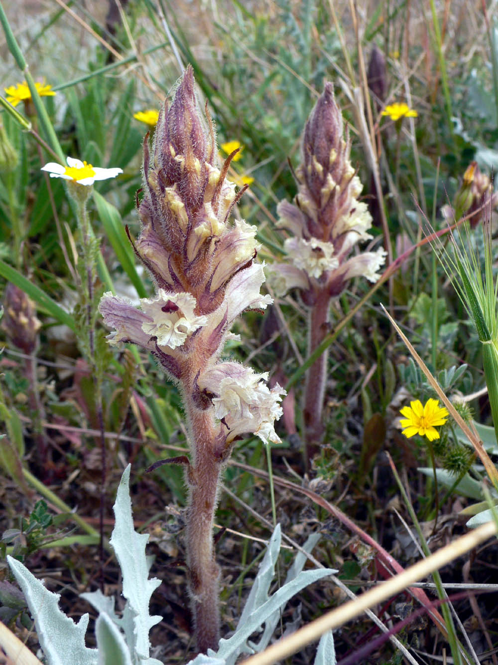 Orobanche amethystea in Galifa, Cartagena, Spain.